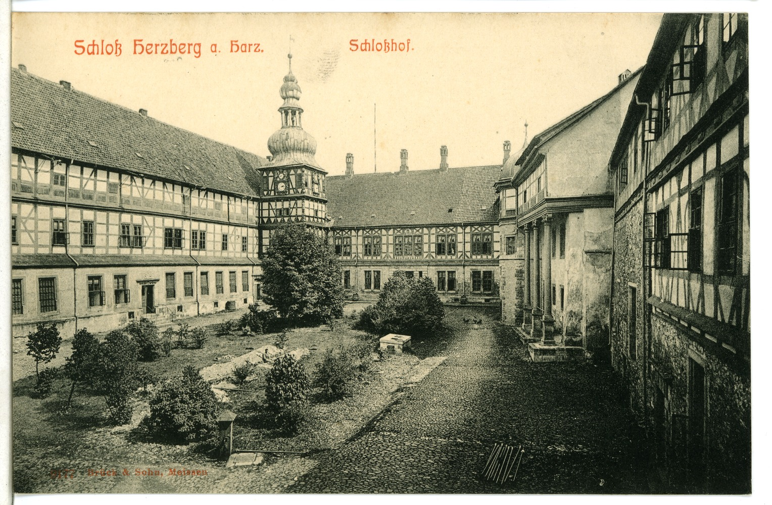 This postcard is from publisher Brück & Sohn in Meißen ( This postcard has a unique number 09177 and is available in a higher resolution at the publisher. This images was uploaded in a cooperation project between Wikipedians and the publisher.